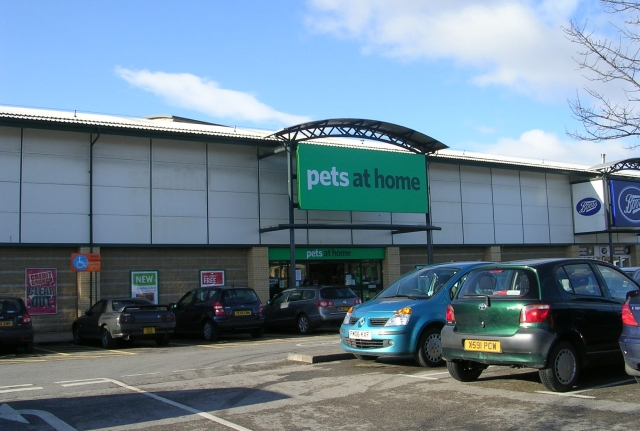 pets at home - Forster Square Retail Park